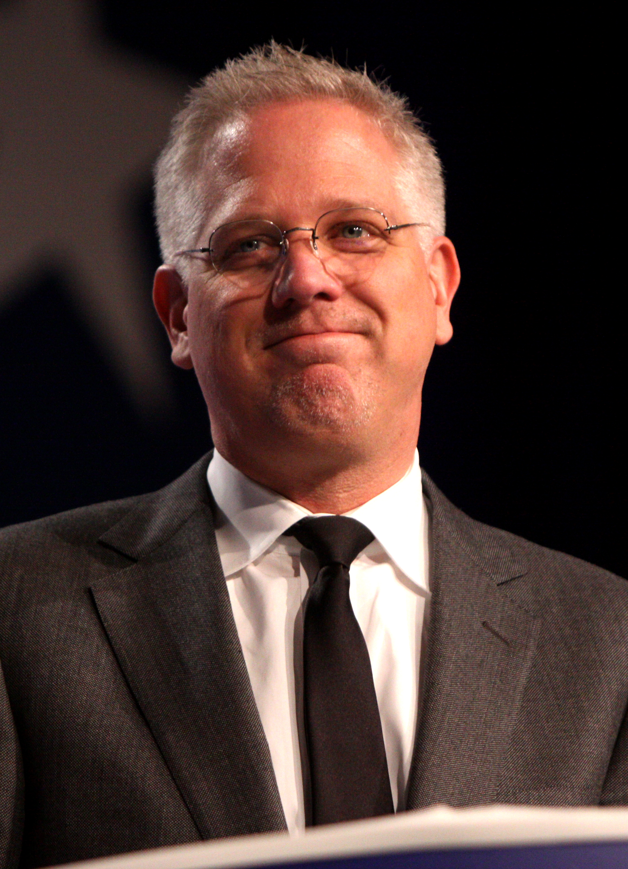 Glenn Beck speaking at the Values Voter Summit in Washington D.C. on October 8, 2011.